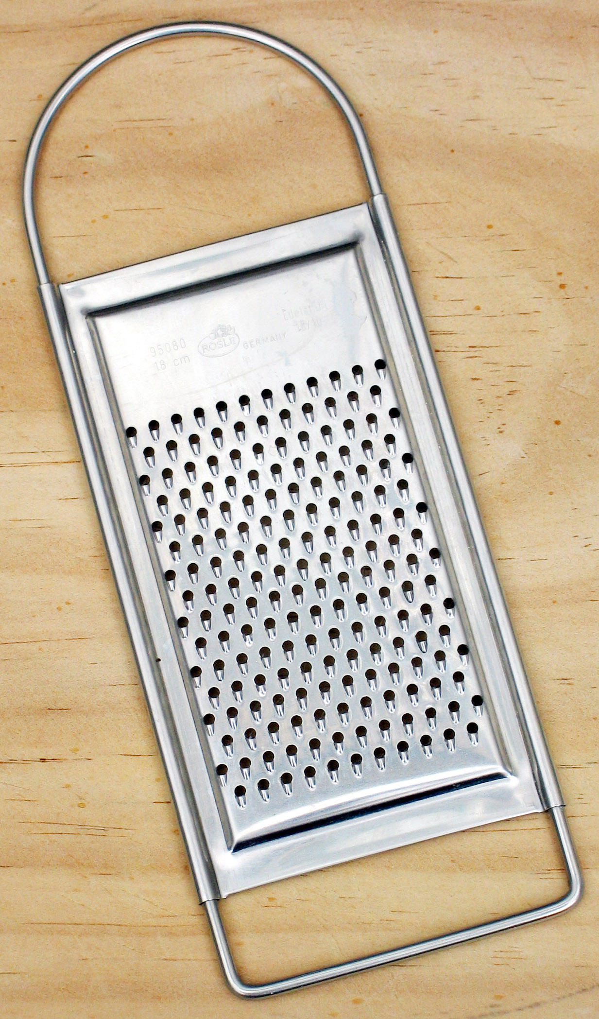 This is a citrus zest grater (may also be used as a general purpose grater).